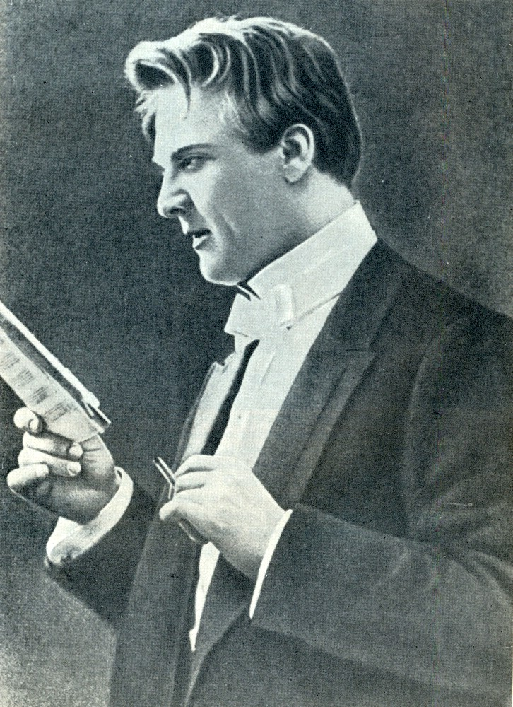 Russian bass, Feodor Chaliapin (1873 - 1938)